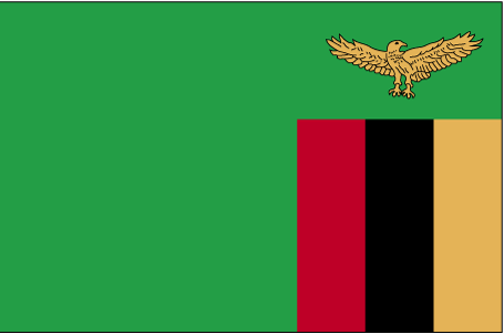 Original image from CIA World Fact Book, 2004